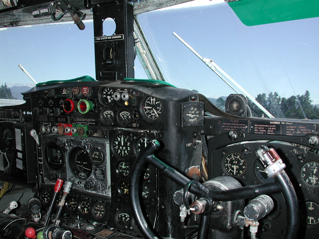 Cockpit of Bristol Freighter at Omaka Aviation Heritage Centre